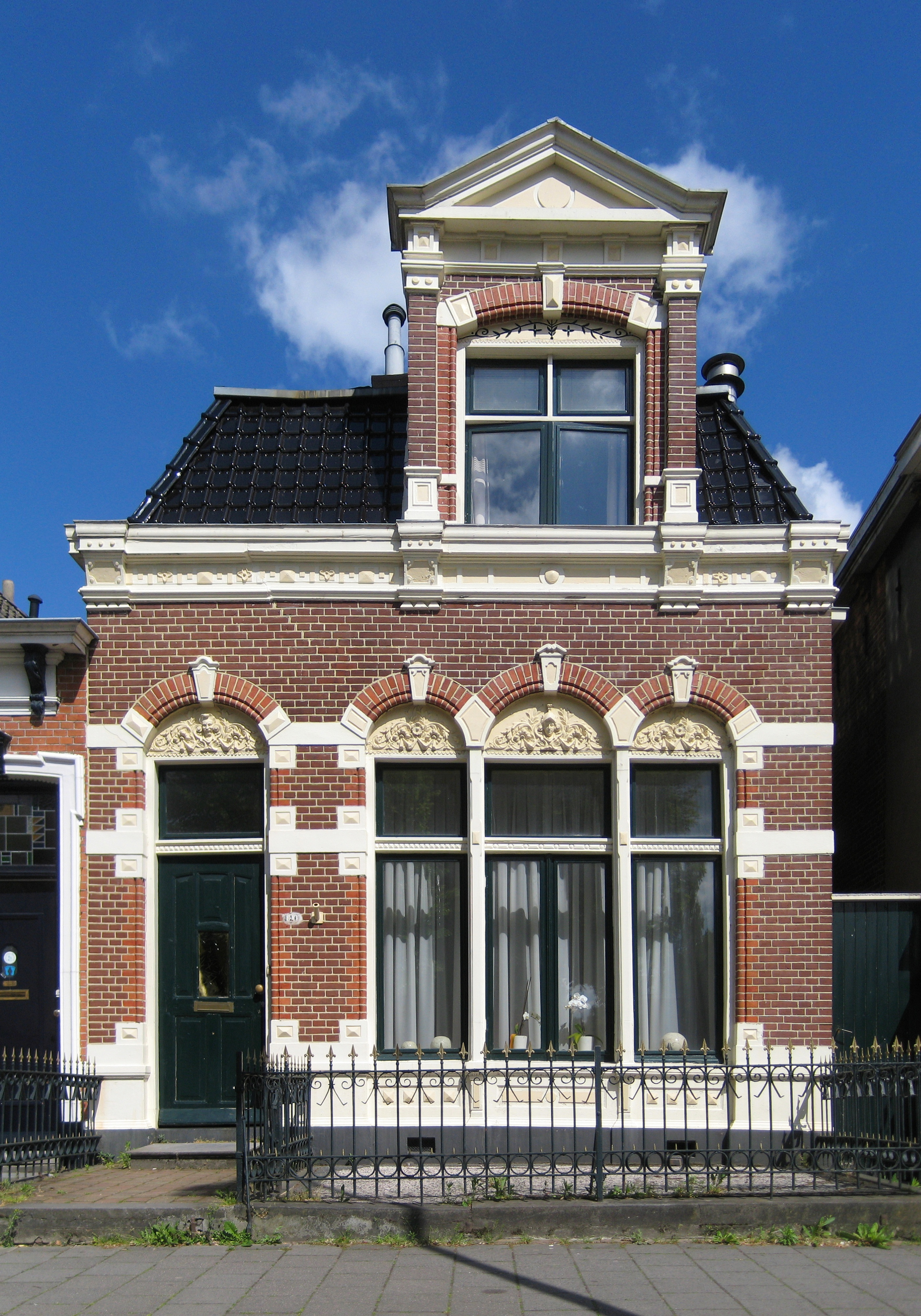 House (1894) in the Dutch city of Groningen.